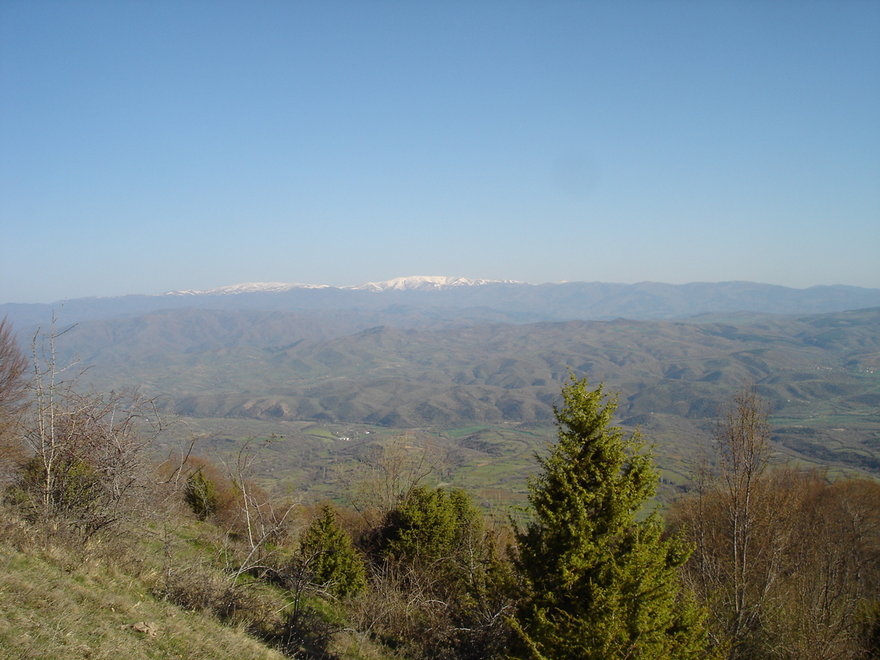 Osogovo Mountain, seen from Plackovica, Macedonia